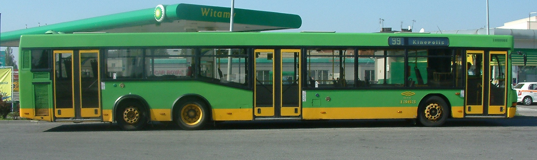 Neoplan N4020 (#1363) in Poznań, Poland. Built 1996, MPK Poznań operator.